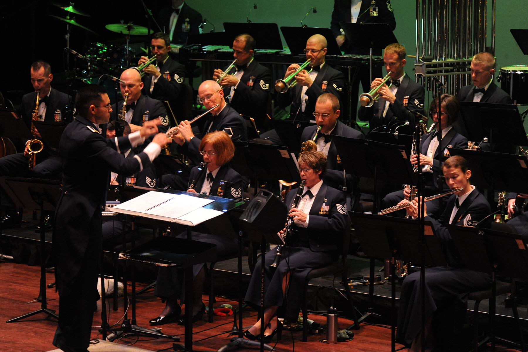 The Concert Band of the United States Air Force Heritage of America Band